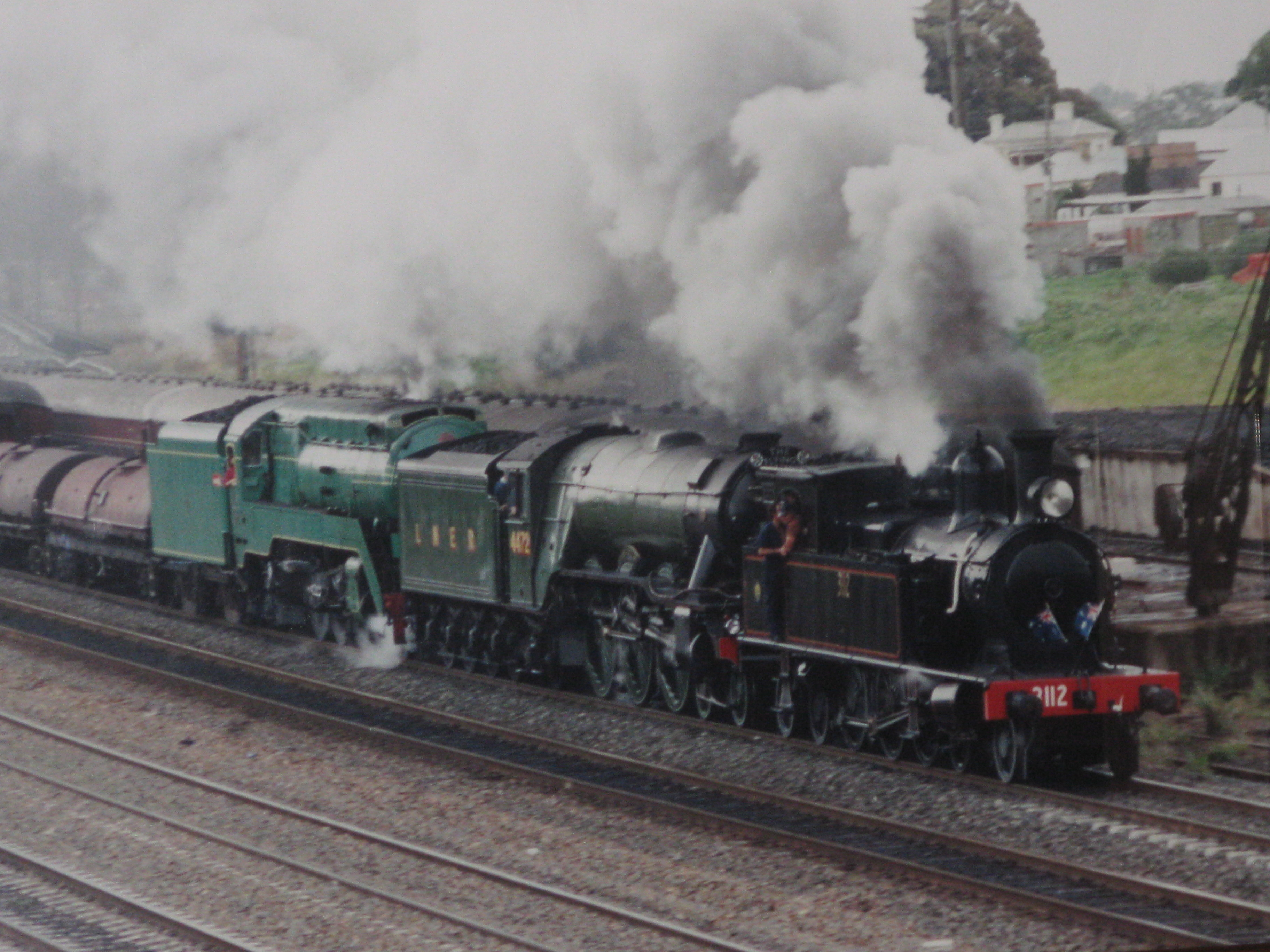 Flying Scotsman, 3112 and 3801 at the Hunter Valley Steamfest in 1989.